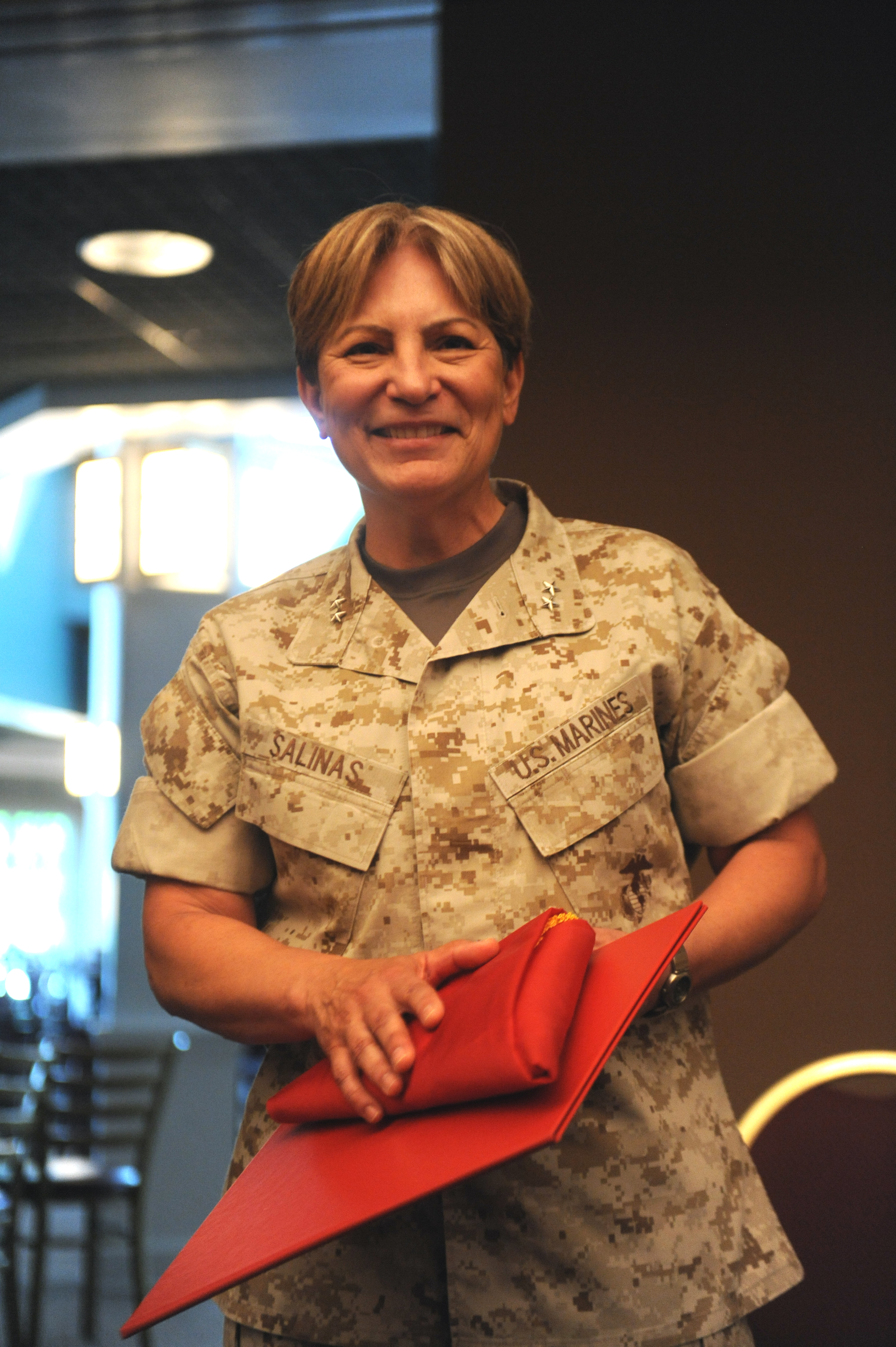 The newly promoted Maj. Gen. Angela Salinas addresses the audience after having her second star pinned on by her sisters Janie and Irene.